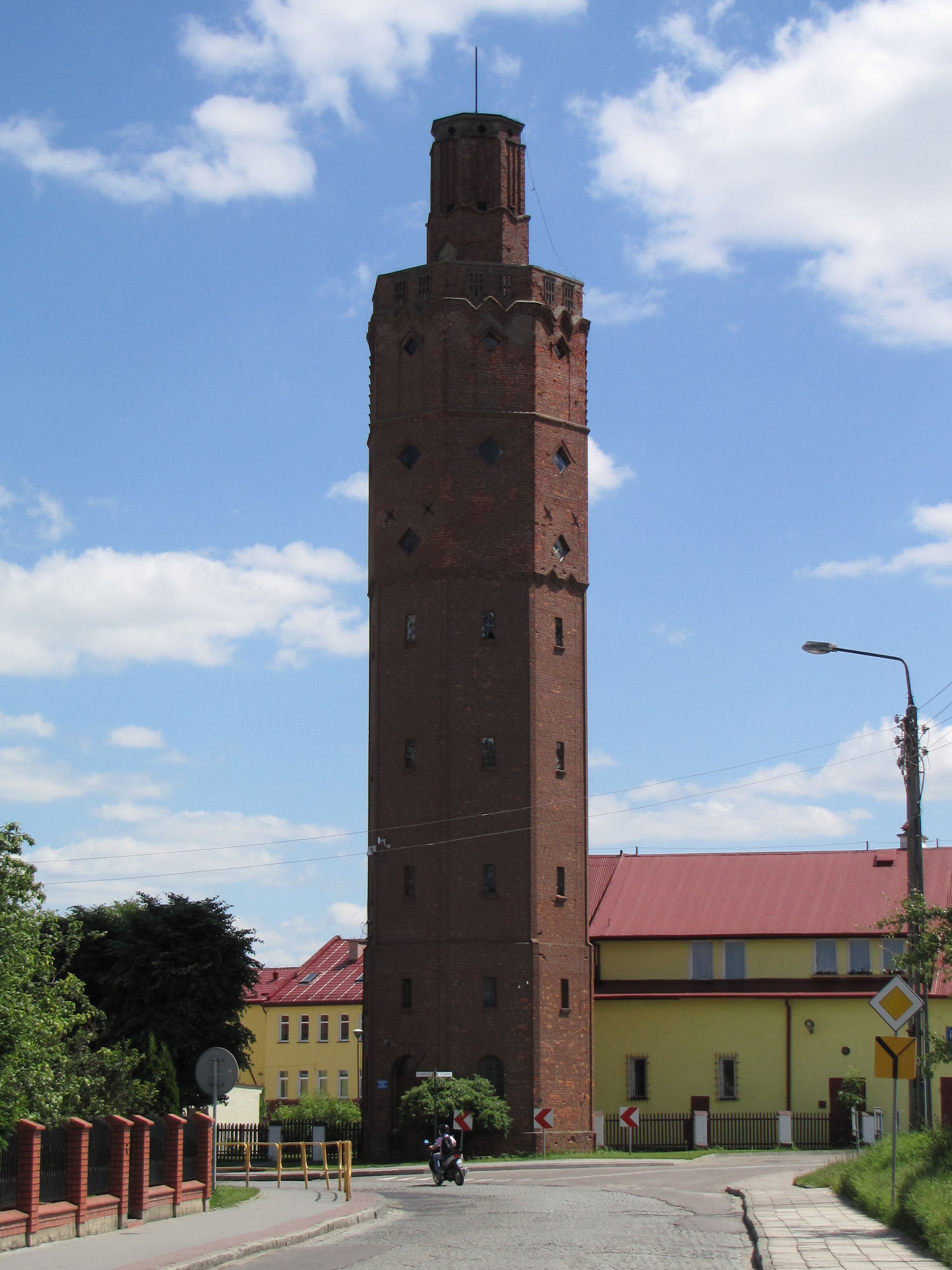 Old german water tower in Biała Piska